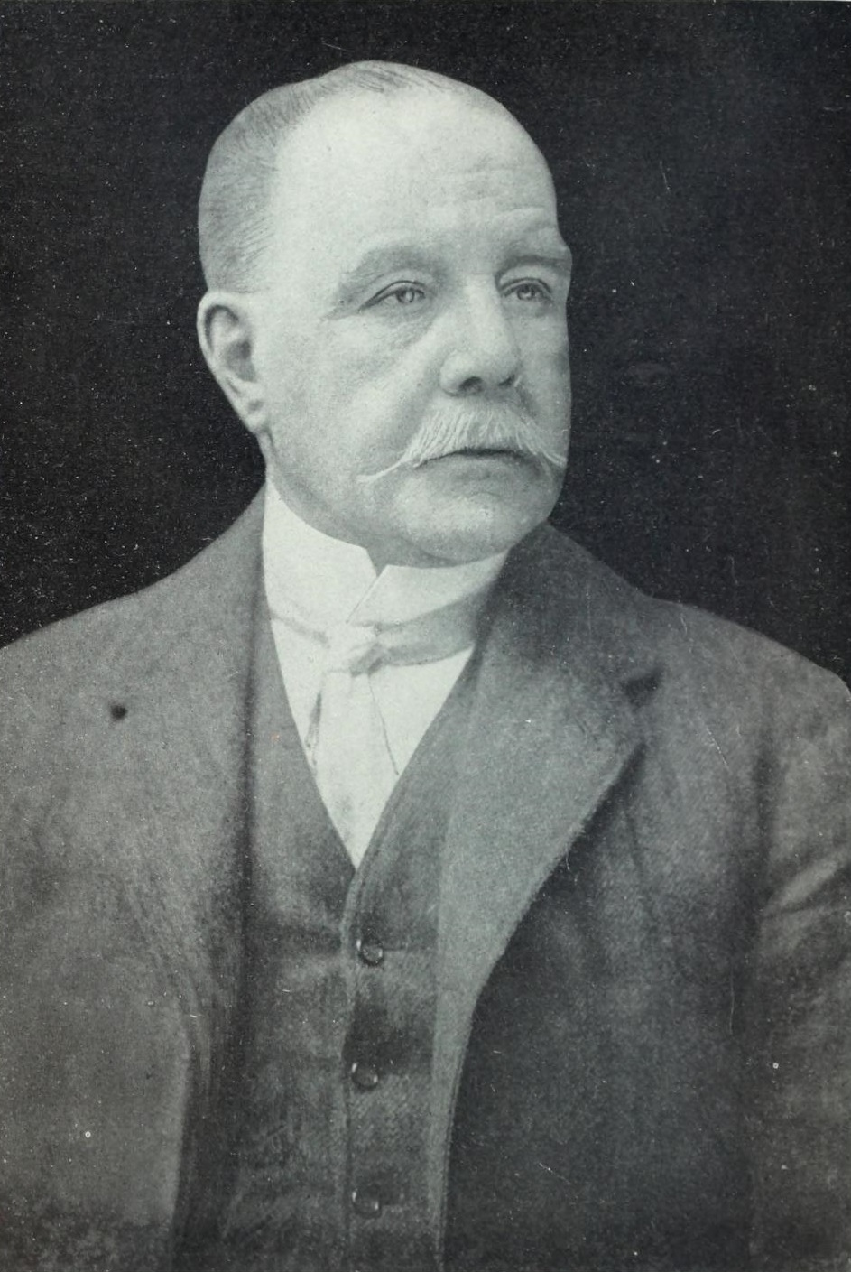 Portrait of Alfred D'Orsay Tennyson Dickens